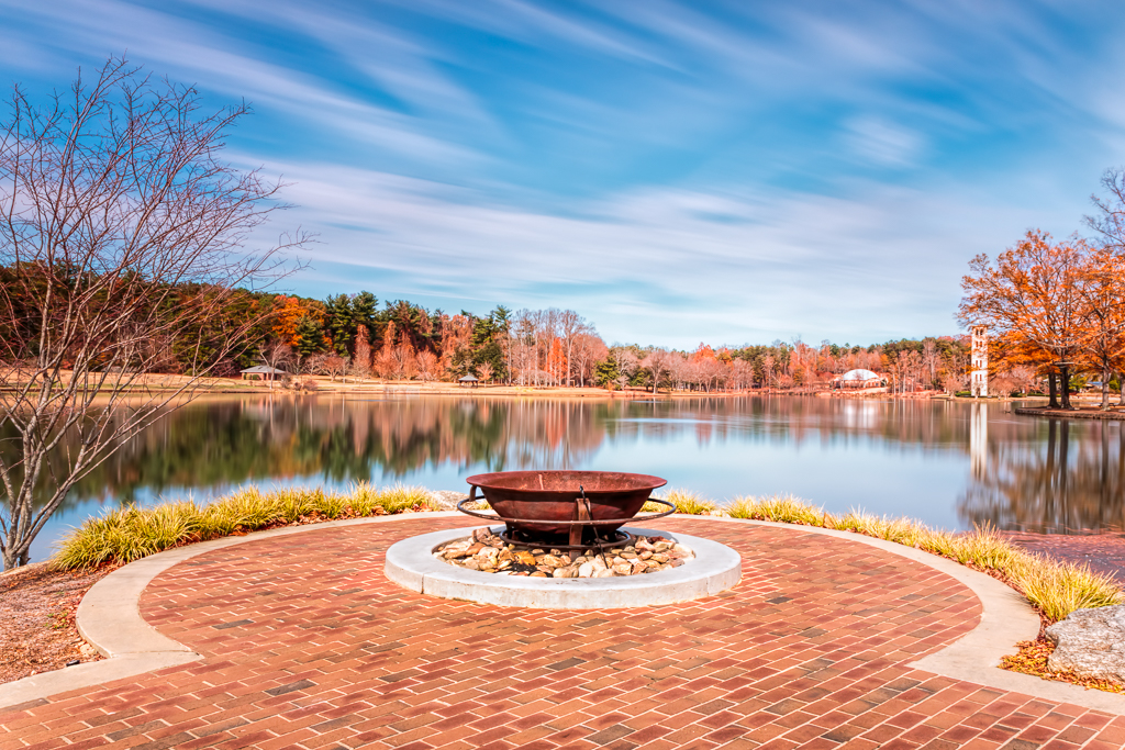 Daytime long exposure shot of the Furman Lake in Furman University